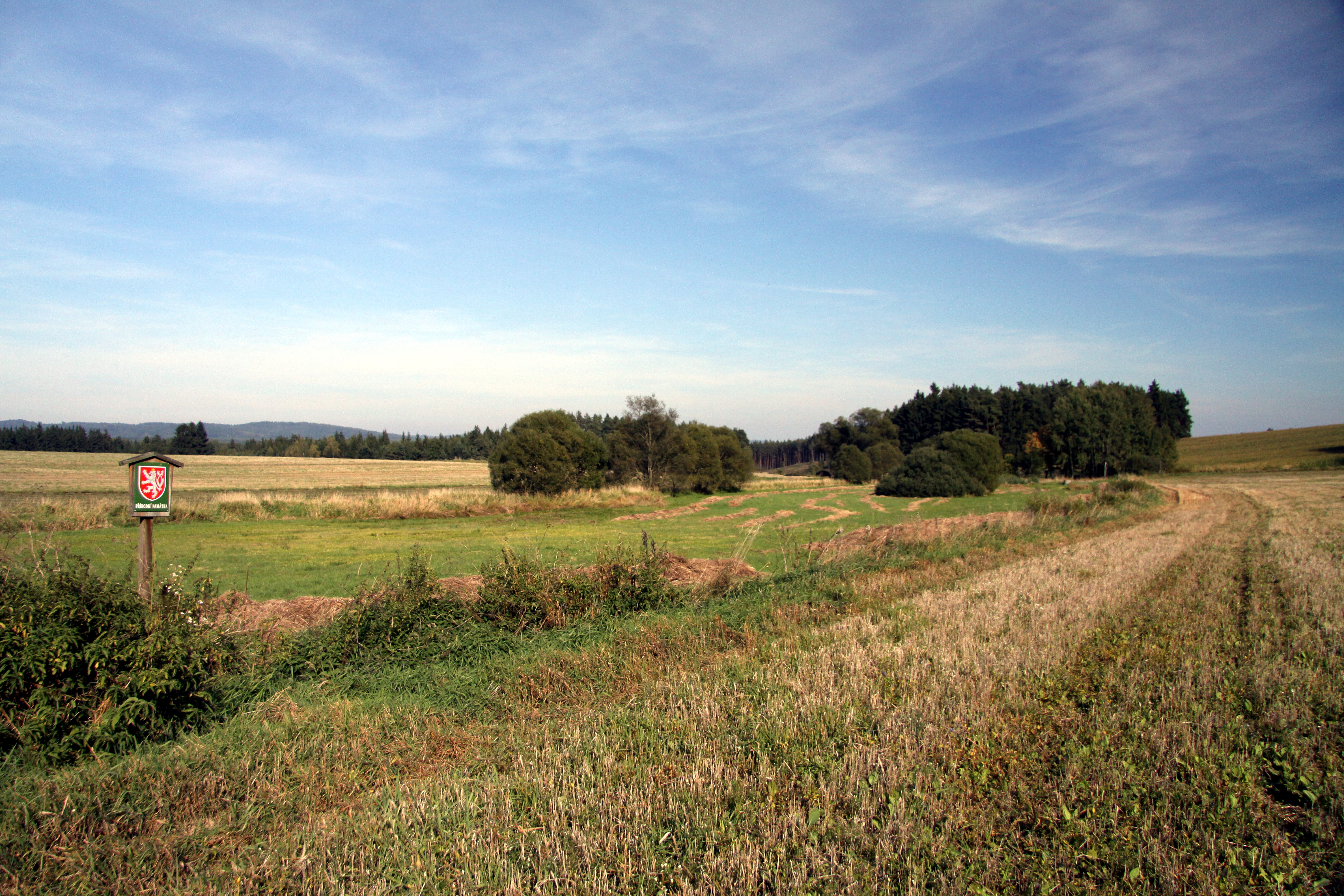 Natural monument Dehetnik, Písek District, Czech Republic - Google Maps - Google Earth